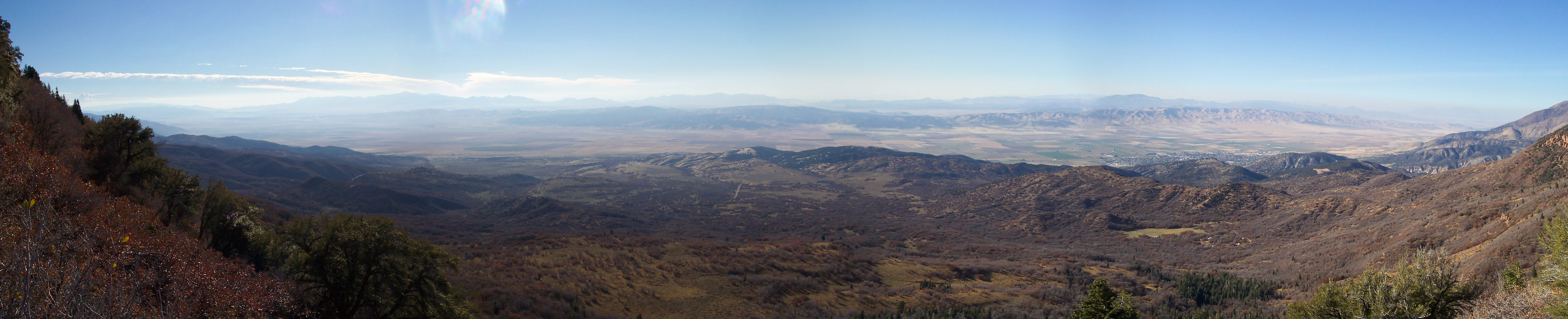 Panoramic of Nephi valley